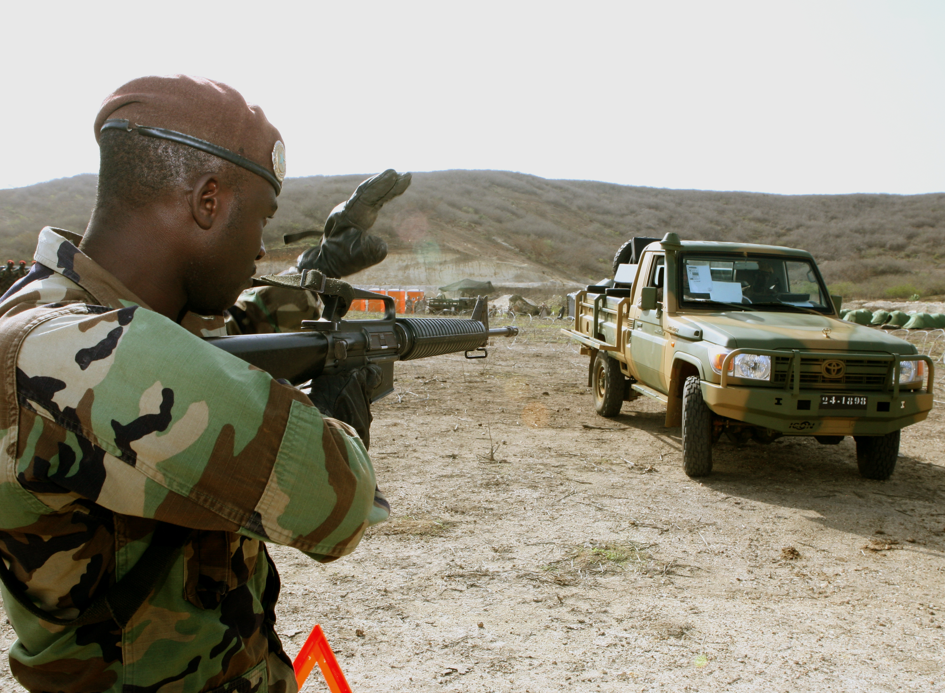 A Senegalese soldier stops a truck at a simulated vehicle checkpoint during a demonstration for Western Accord 2012 in Thies, Senegal, July 13, 2012. Western Accord is a U.S. Africa Command-sponsored, Marine Forces Africa-led multilateral field exercise and humanitarian mission in Senegal designed to increase interoperability between the United States and several West African partner nations.